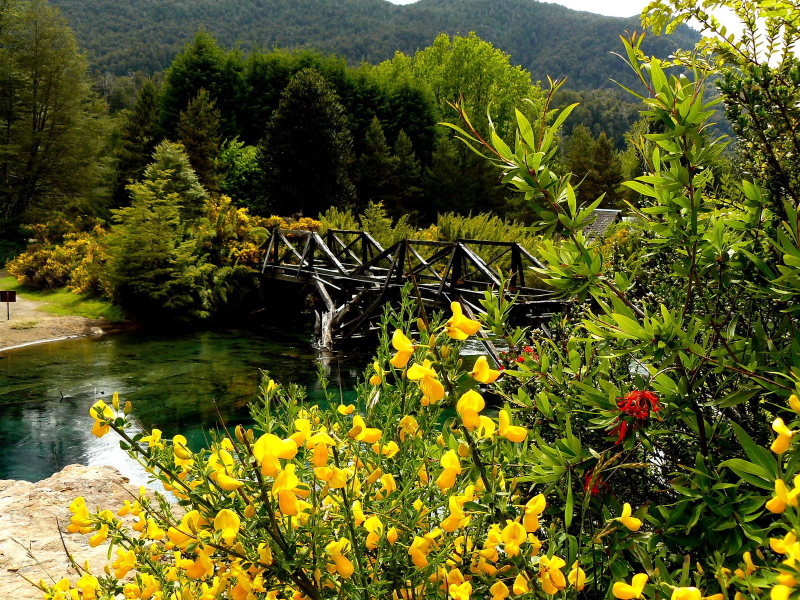 Ruta de los 7 lagos